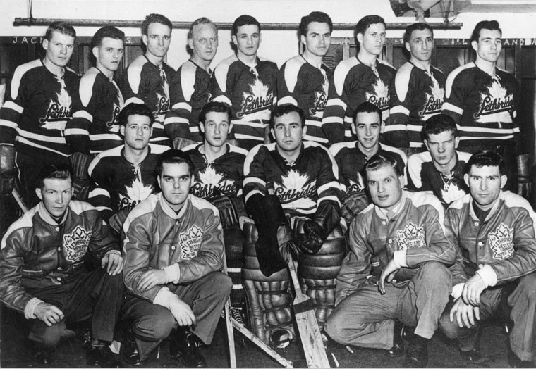 1951-1952 Copy 1 50 cm x 40.5 cm Copy 2 35.5 cm x 30.3 cm Copy 3 ( no size) 3 Black and white photographs. Group photograph of the Lethbridge Maple Leafs Hockey Club, world's amateur champions, Churchill cup winners, Paris - 1951-1952 - London. From left to right back row: Danny Flanigan, Don McLean, Dick Gray (Coach), Whitey Rimstad, Bill Gibson, Stan Obodiac, Tom Wood, Hector Negrello (Captain), Bill Flick. Middle row: Mickey Roth, Jim Malacko, Mallie Hughes, Bill Chandler, Don Vogan. Bottom row: A (Nap) Milroy, Carle Sorokoski, Louis Siray, Bert Knibbs. Cup and medals also in the Museum Collection. To obtain high quality and larger reproductions of this image please visit the Galt Museum & Archives website: and include thIs number in your request: P19754345000